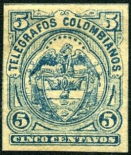 A 5c telegraph stamp of Colombia. Type 2 according to the Steve Hiscocks catalogue.